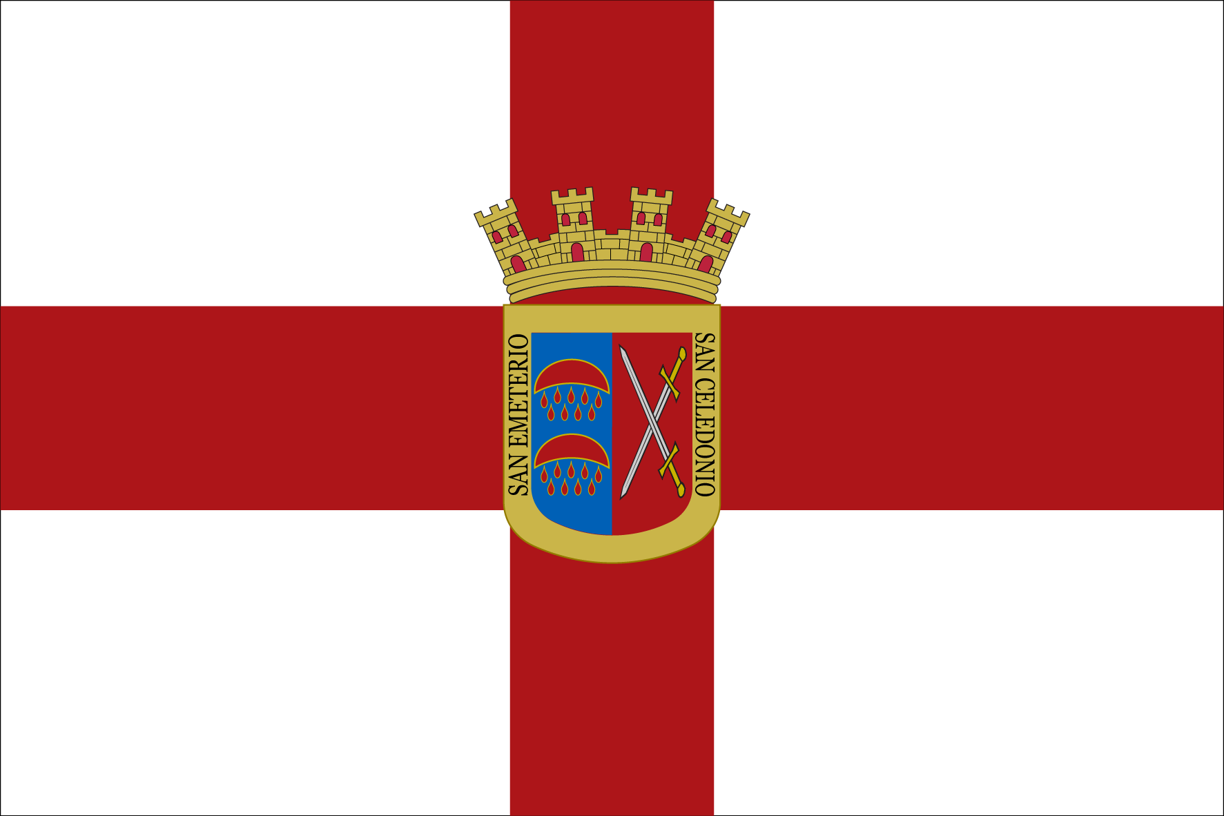 Flag of Calahorra, La Rioja, Spain